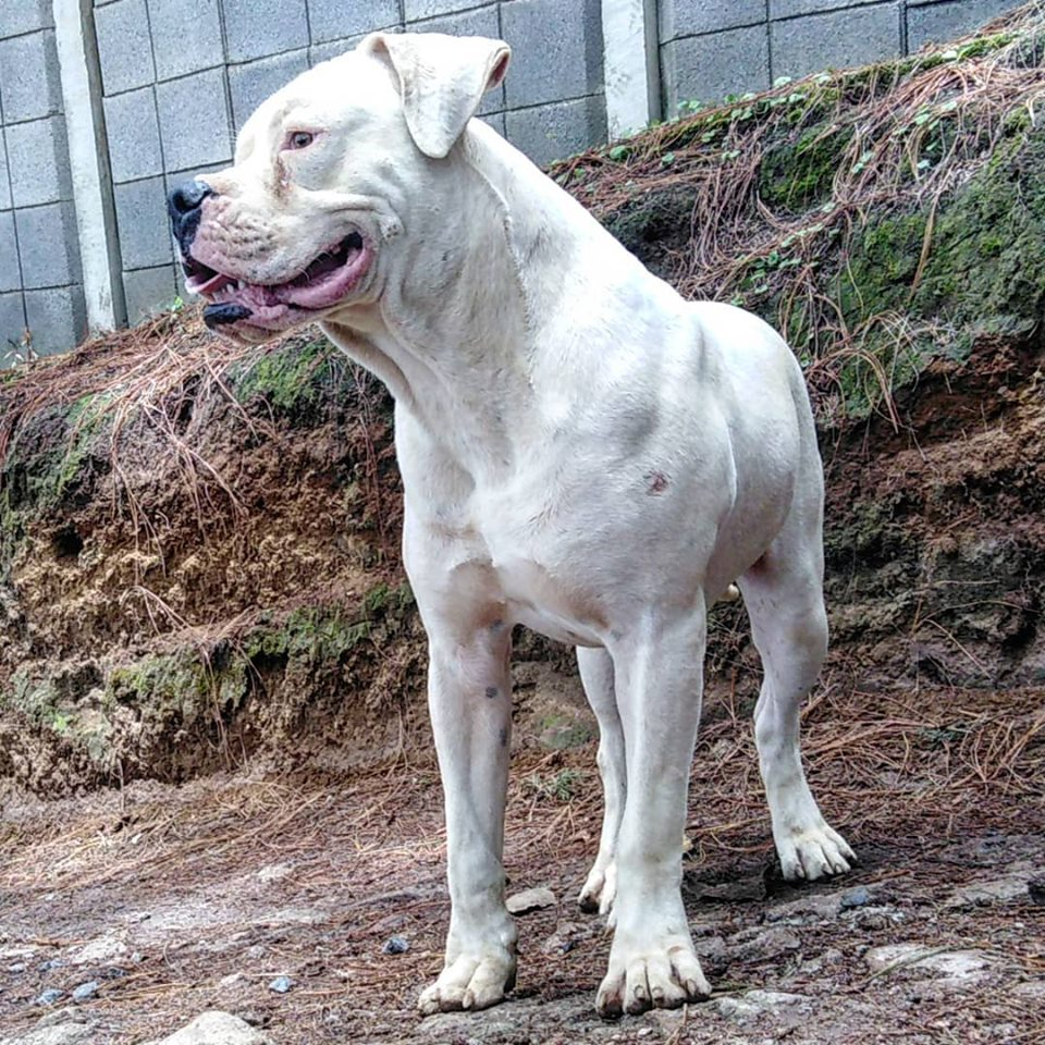 Eggon taking his daily walk.